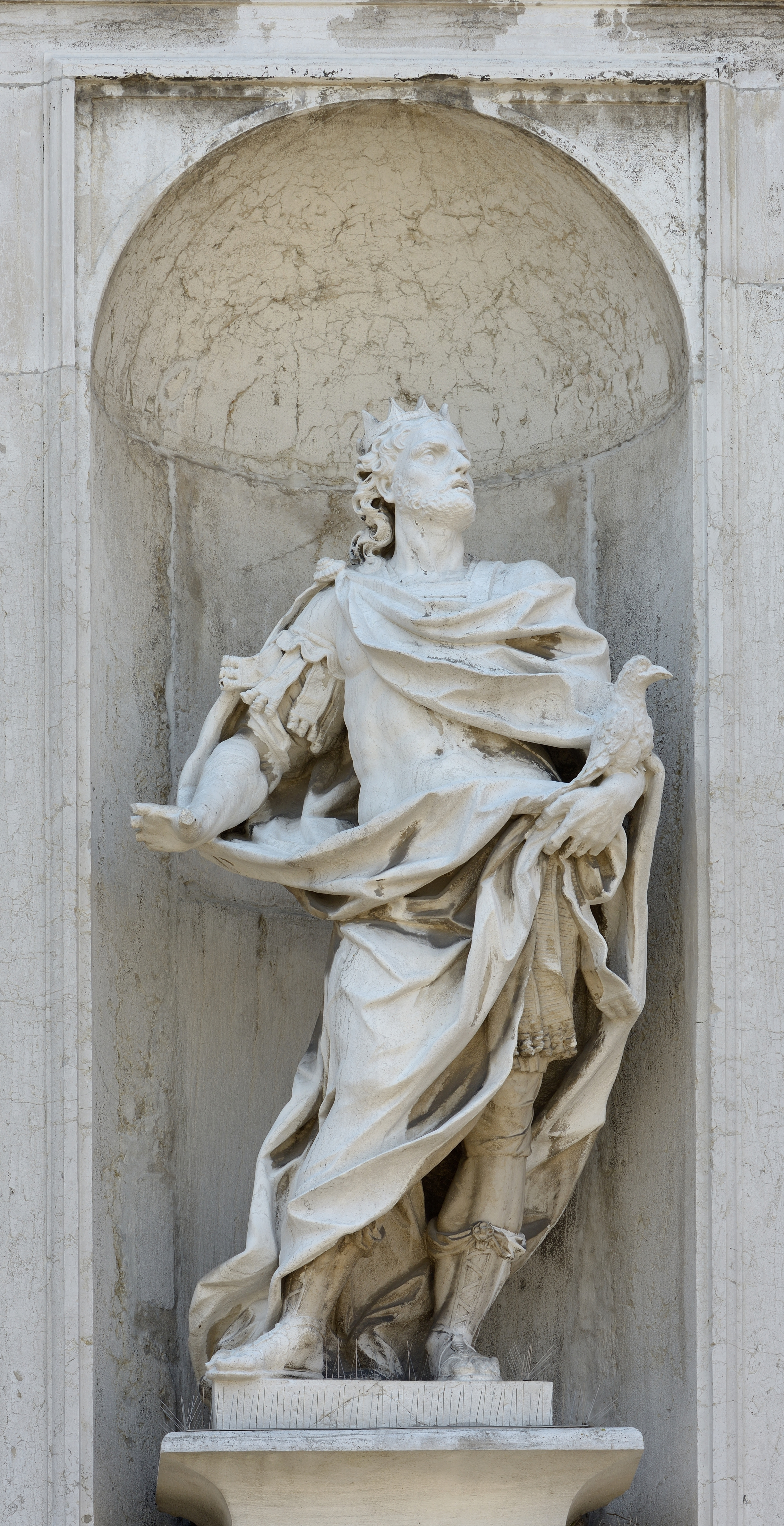 Statue of Saint Oswald by Giuseppe Torretti on the facade of San Stae church in Venice.